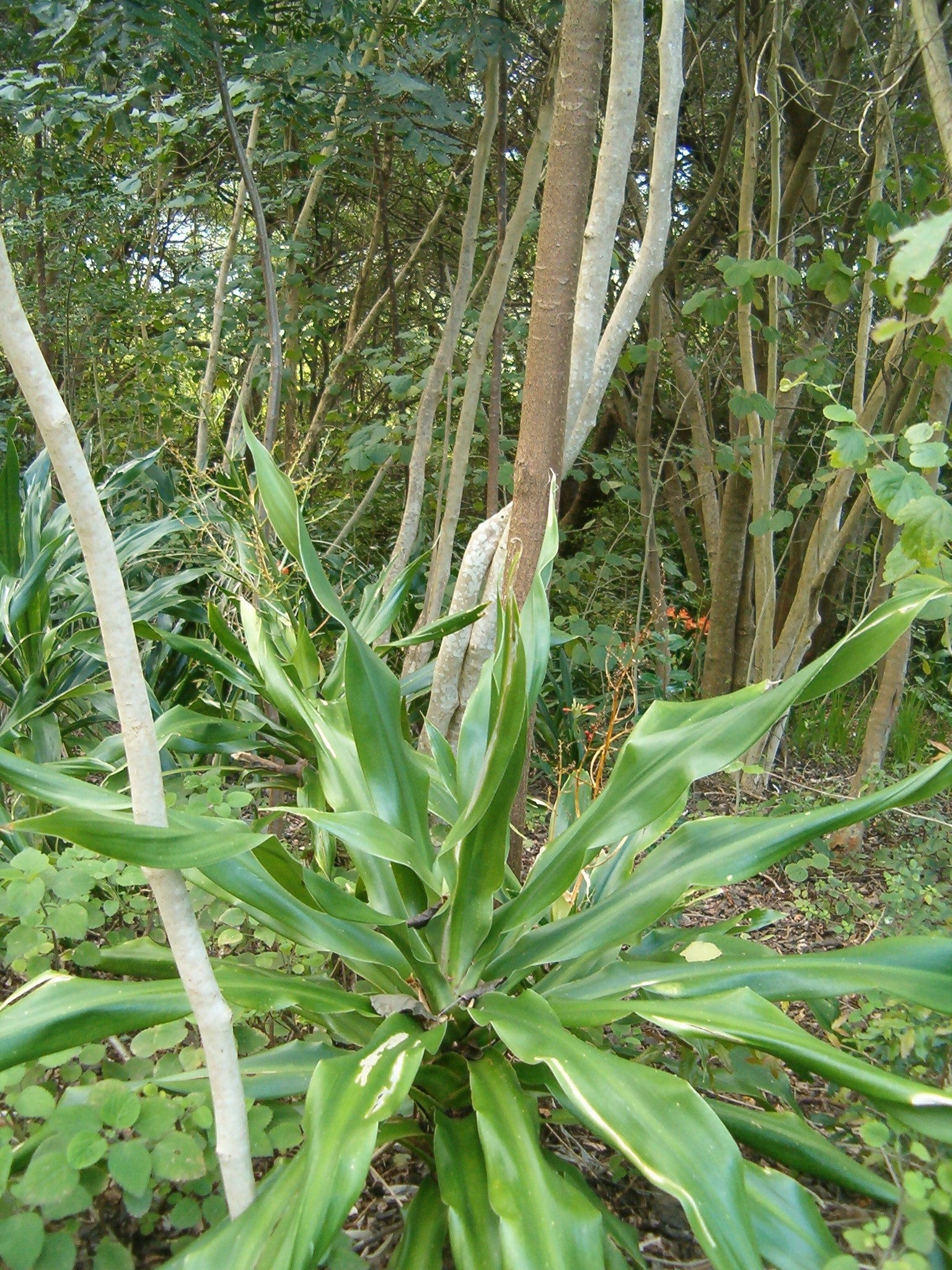 At Kirstenbosch National Botanical Gardens Species Dracaena aletriformis